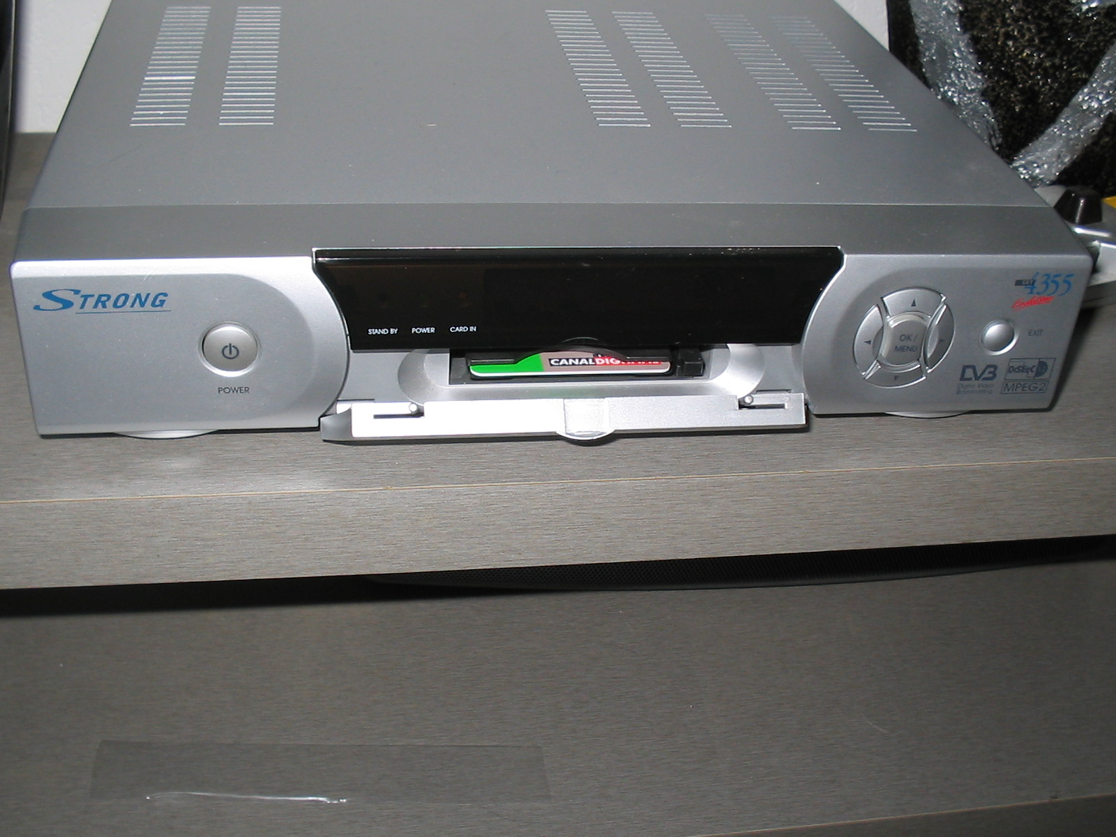 Satellite television receiver with smartcard